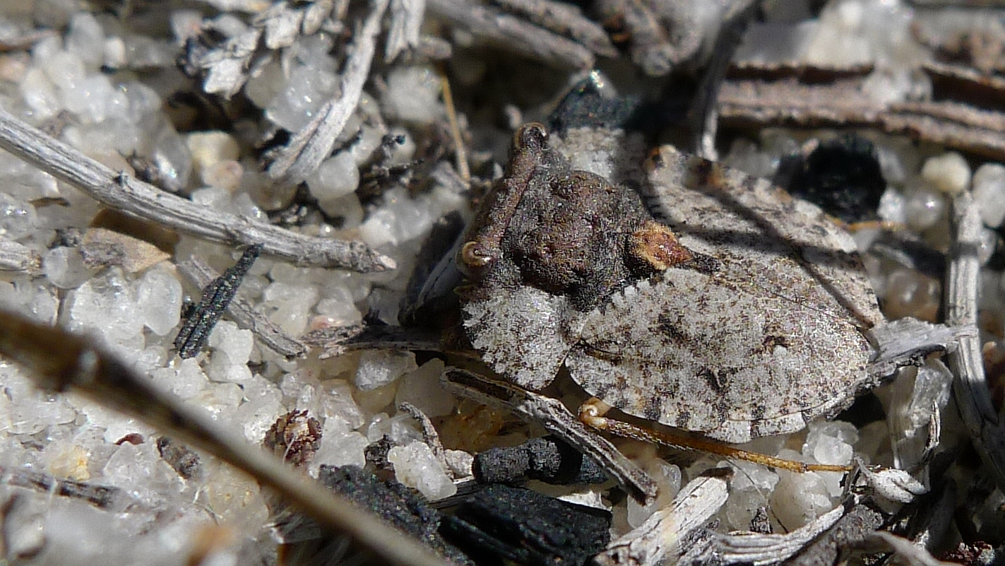 Toad bug, a species of Nerthra, family Gelastocoridae. Wandoo National Park, Western Australia, May 2012.